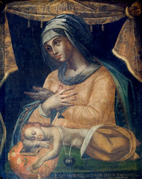 Our Lady of Wyszyna.